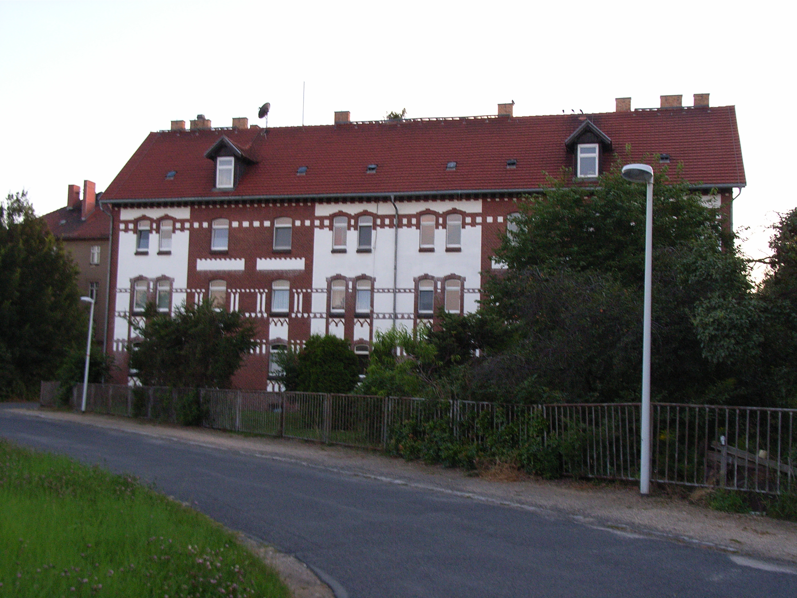 former residential building of Prussian civil servants of the classification yard Schlauroth, Görlitz, Saxony